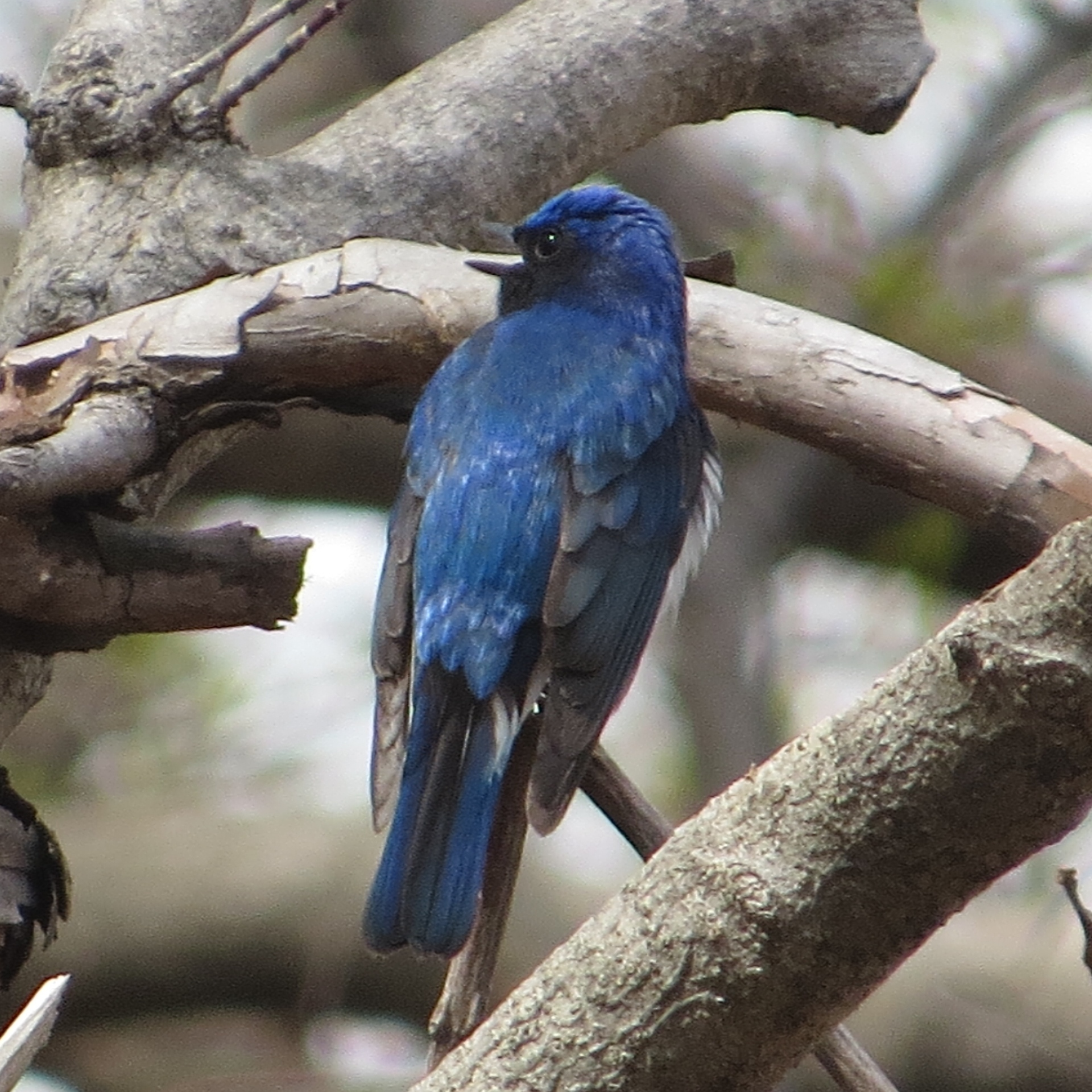 Blue-and-white Flycatcher (Cyanoptila cyanomelana), male crying on tree in Mount Fujiwara, Inabe, Mie prefecture, Japan.